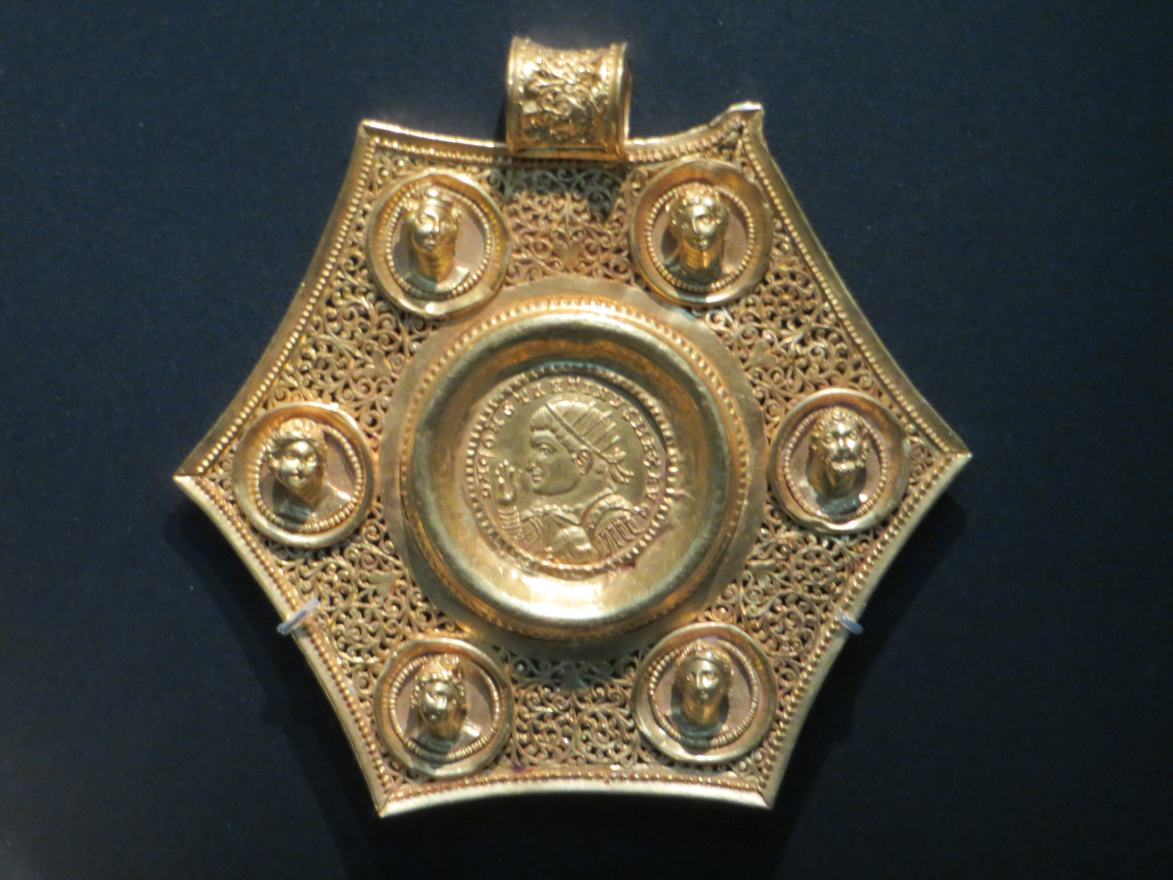 Gold coin pendant in the British Museum